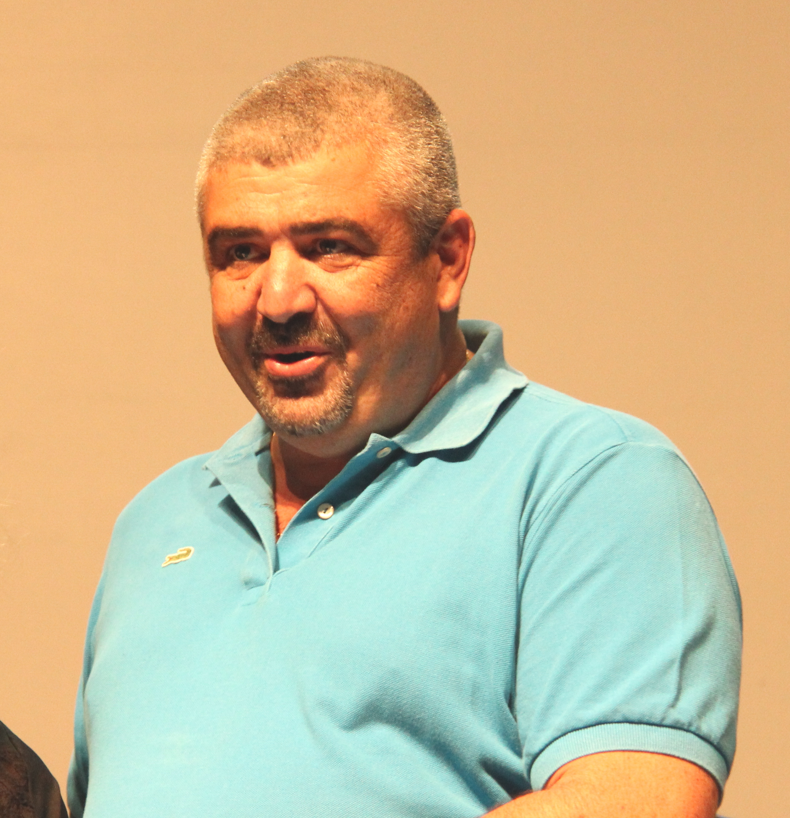 Portrait Picture of Shlomo Lahiani